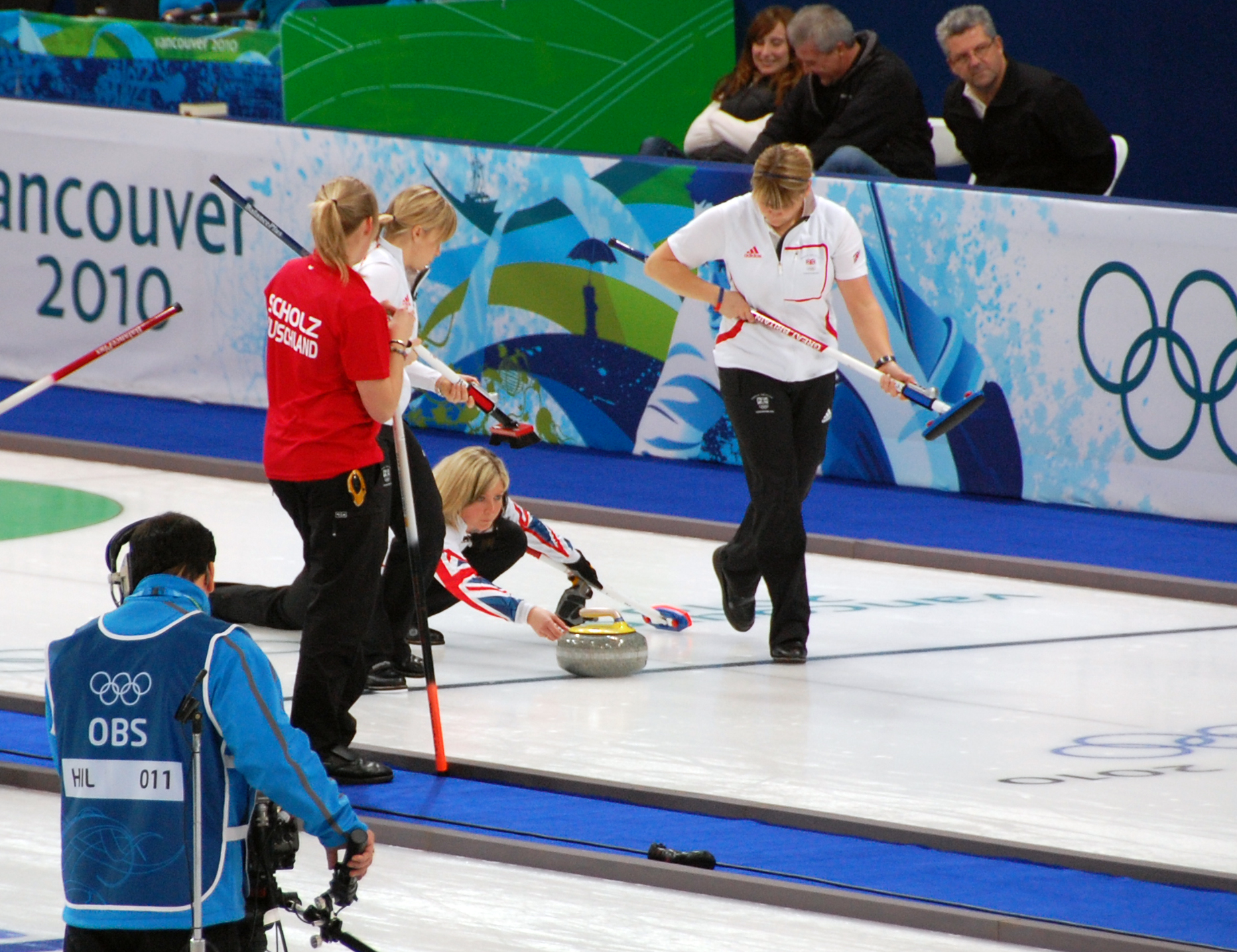 Skip Eve Muirhead delivers a stone. The Brits beat Germany on this morning.